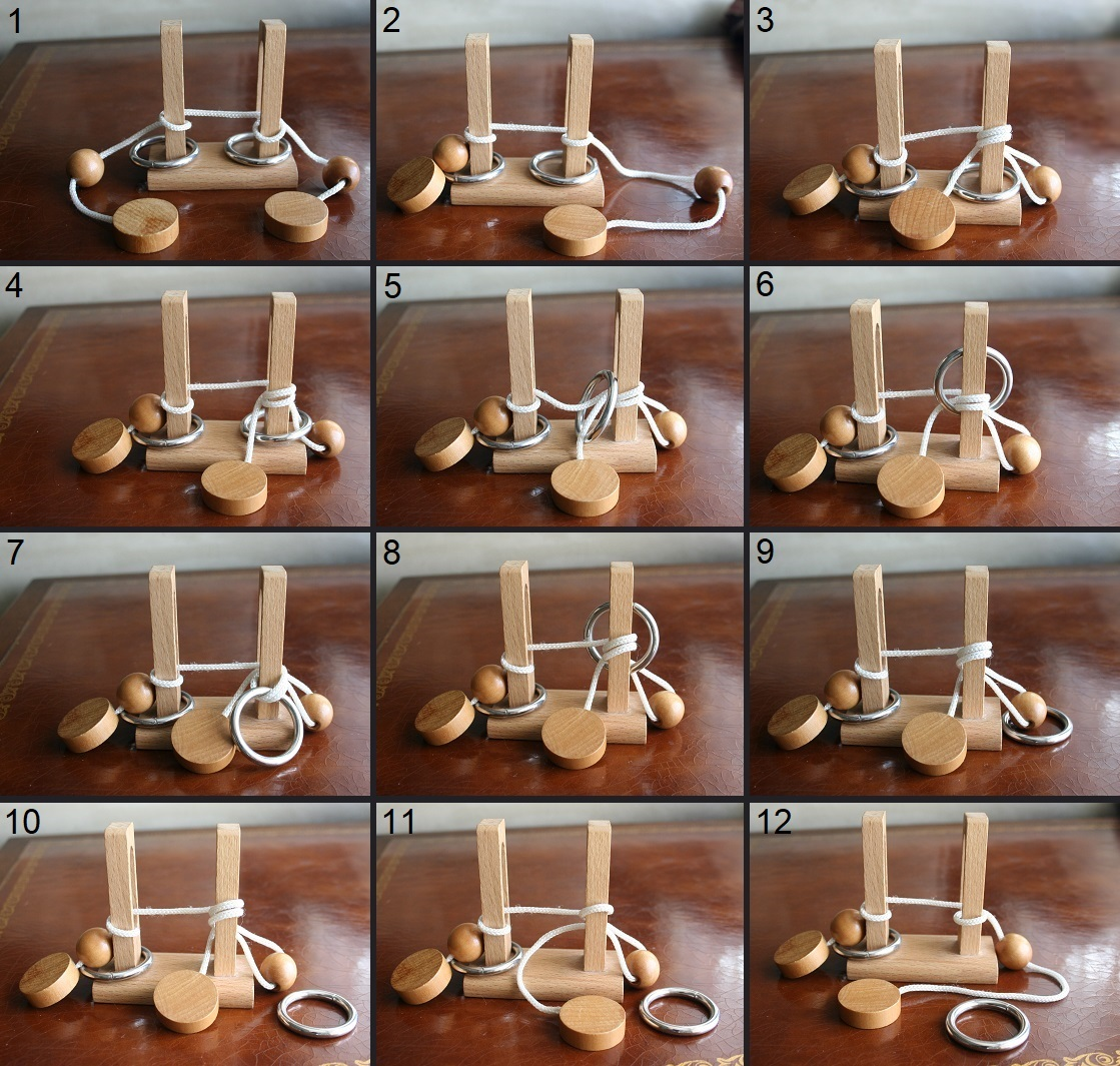 Illustration of the "mini rope bridge puzzle" and how to solve it.